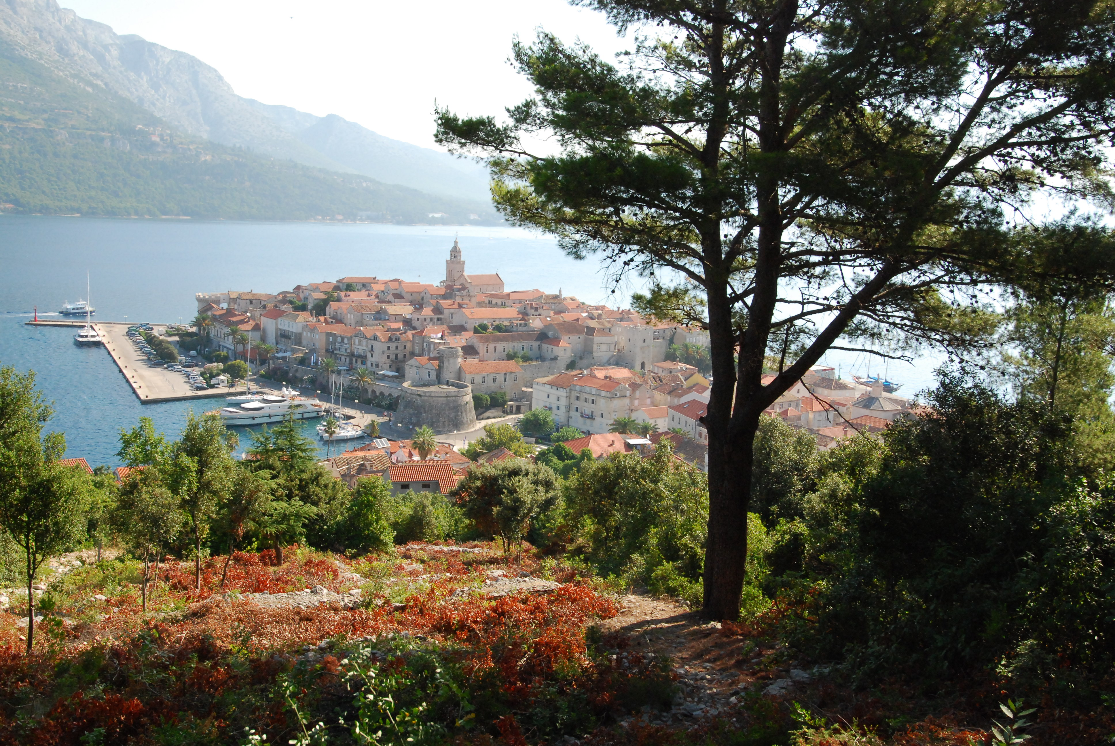 View of Korčula